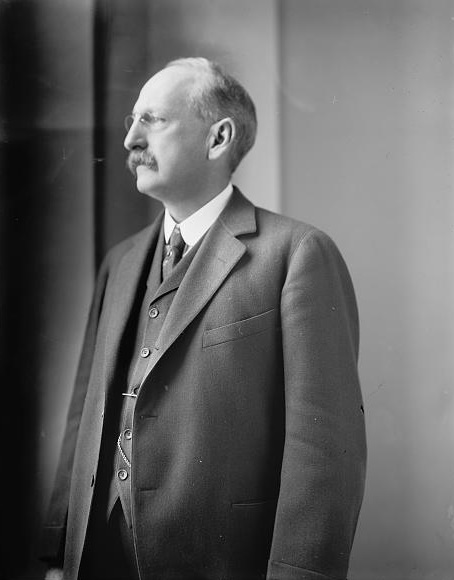 Jacob Sloat Fassett